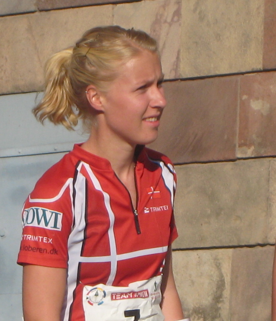 Maja Alm in Stockholm, 22 June, during Nordic Orienteering Tour.